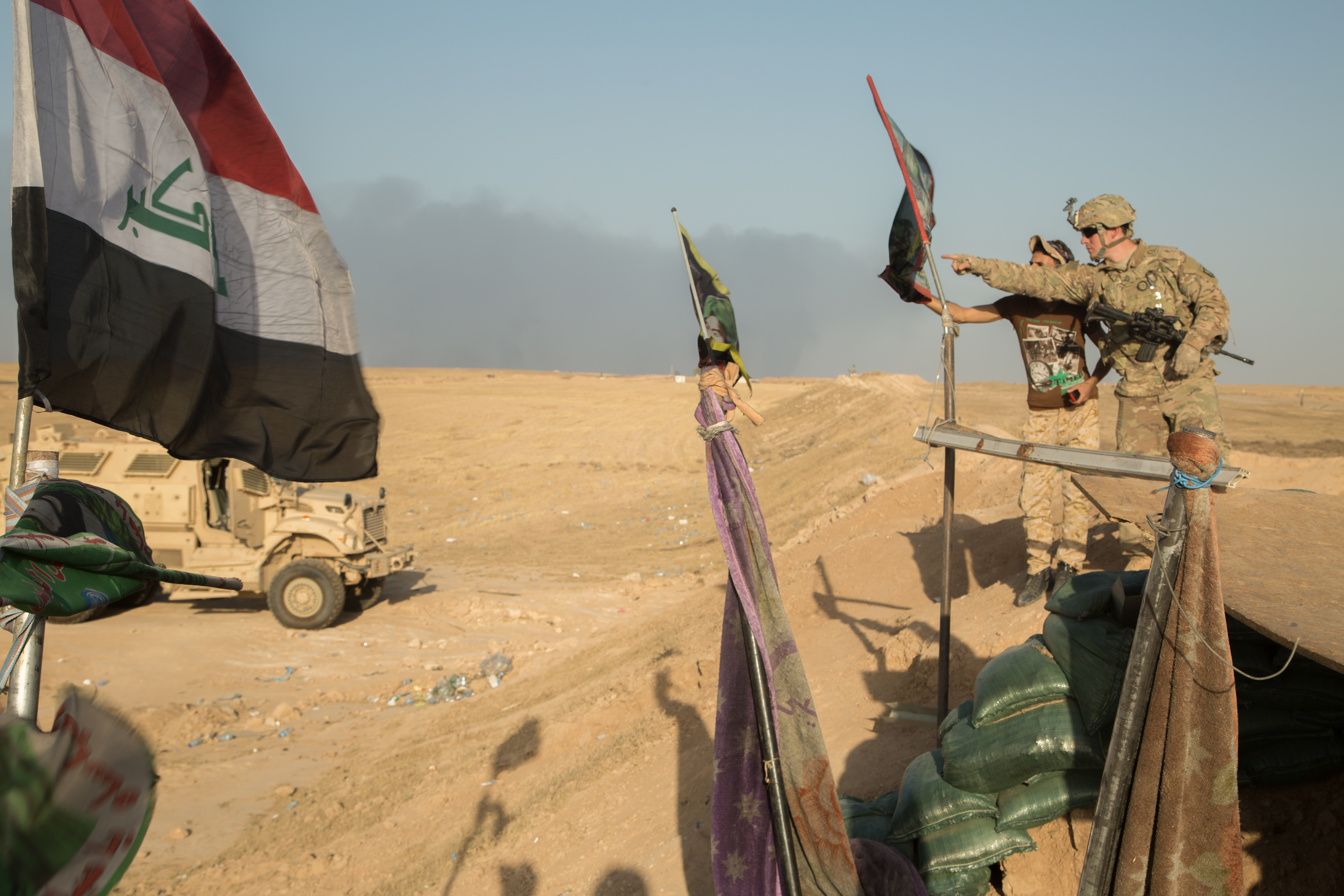 A U.S. Soldier assigned to Company B., 1st Battalion, 126th Infantry Regiment, 2nd Brigade Combat Team, 101st Airborne Division (Air Assault), prepares for a key leader engagement to assess Iraqi security force checkpoints at Qayyarah West Airfield, Iraq, Oct. 31, 2016. The United States stands with a Coalition of over 60 international partners to assist and support Iraqi security forces to degrade and defeat the Islamic State of Iraq and the Levant. (U.S. Army photo by Spc. Christopher Brecht)